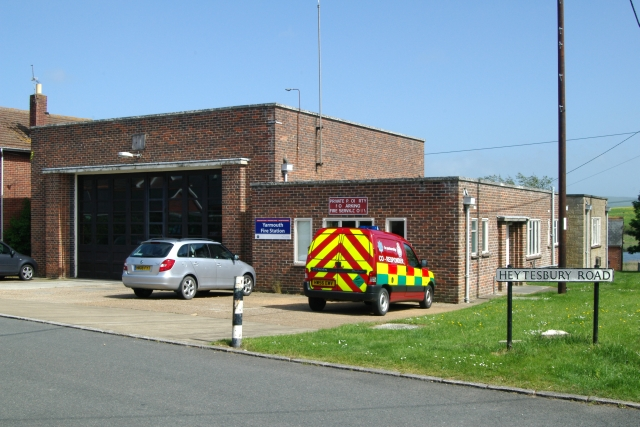 Yarmouth fire station